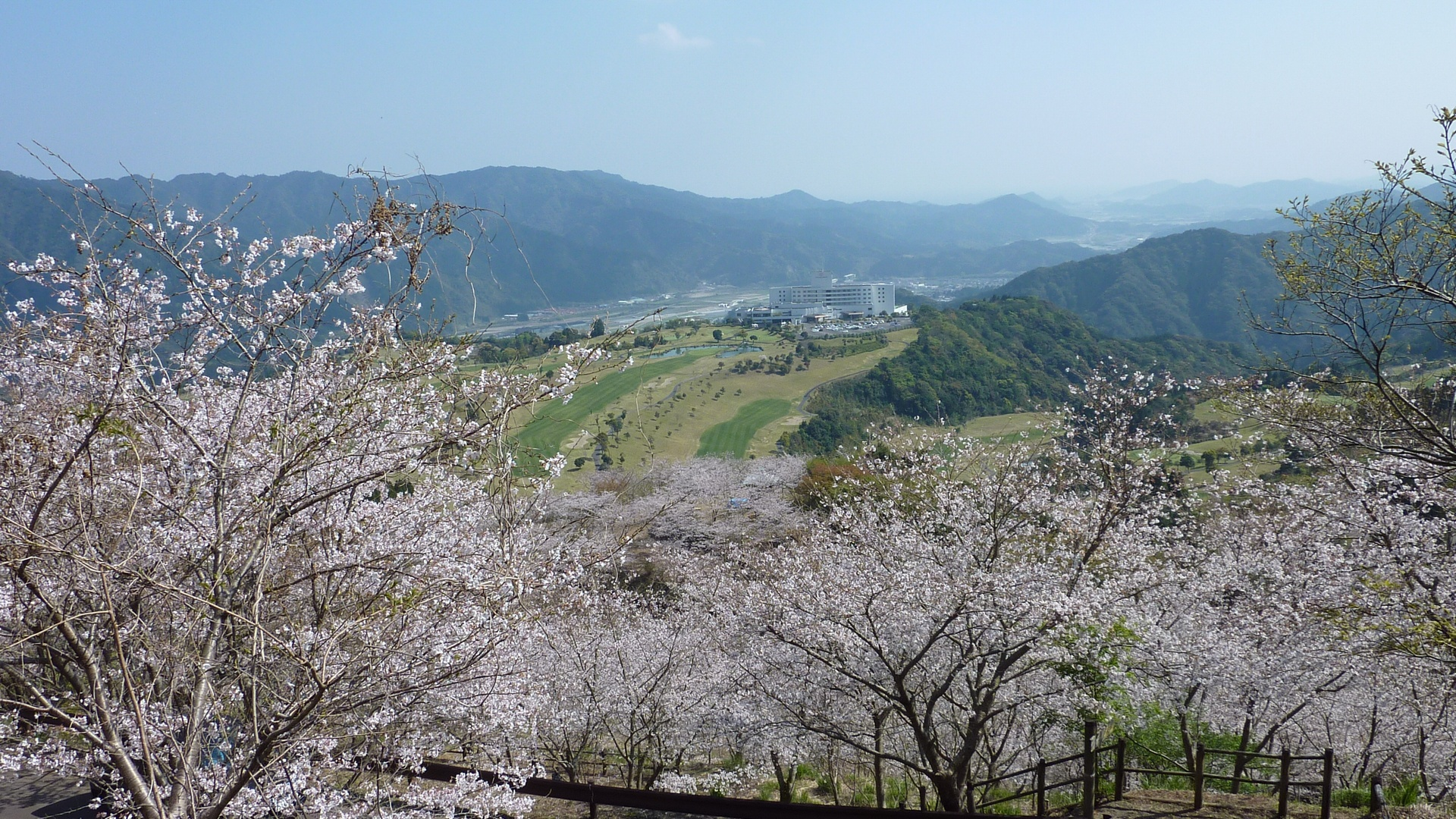 Hanatate Park (Kitago, Nichinan City, Miyazaki, Japan)